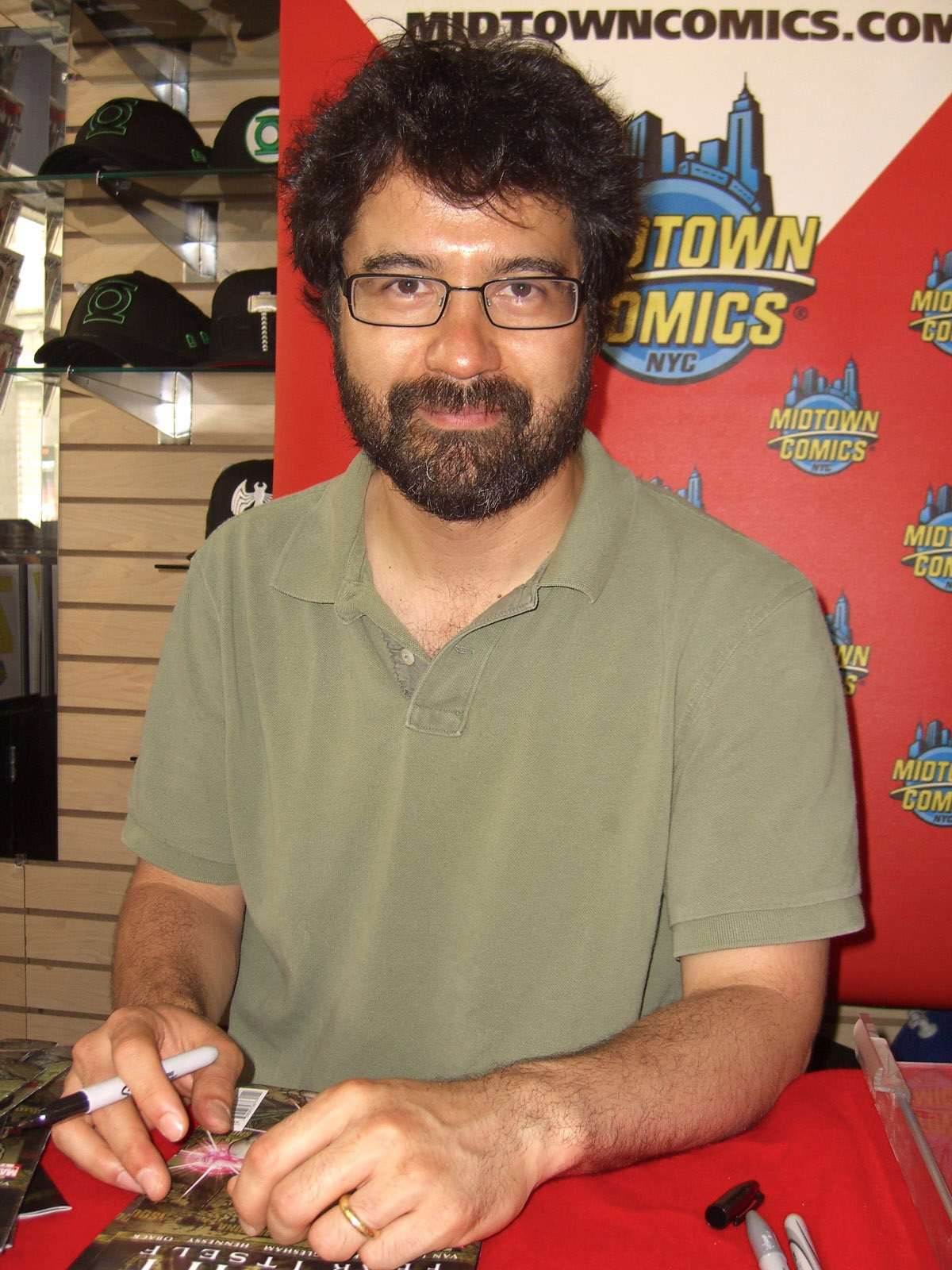 Comic book writer Greg Pak at a signing for Alpha Flight vol 4, #1 at Midtown Comics Downtown on June 18, 2011. Photographed by Luigi Novi. This photo is not in the public domain. It may, however, be used, modified and published for any purpose, free of charge, only if the photographer is properly credited, either by linking the photograph to this page, or with an easily visible credit to the photographer placed near the photo in each instance in which it is used. (See licensing information below.) Publication of this photo without this proper attribution constitutes copyright infringement. If you have any questions, you can contact me on my Wikipedia Talk Page.